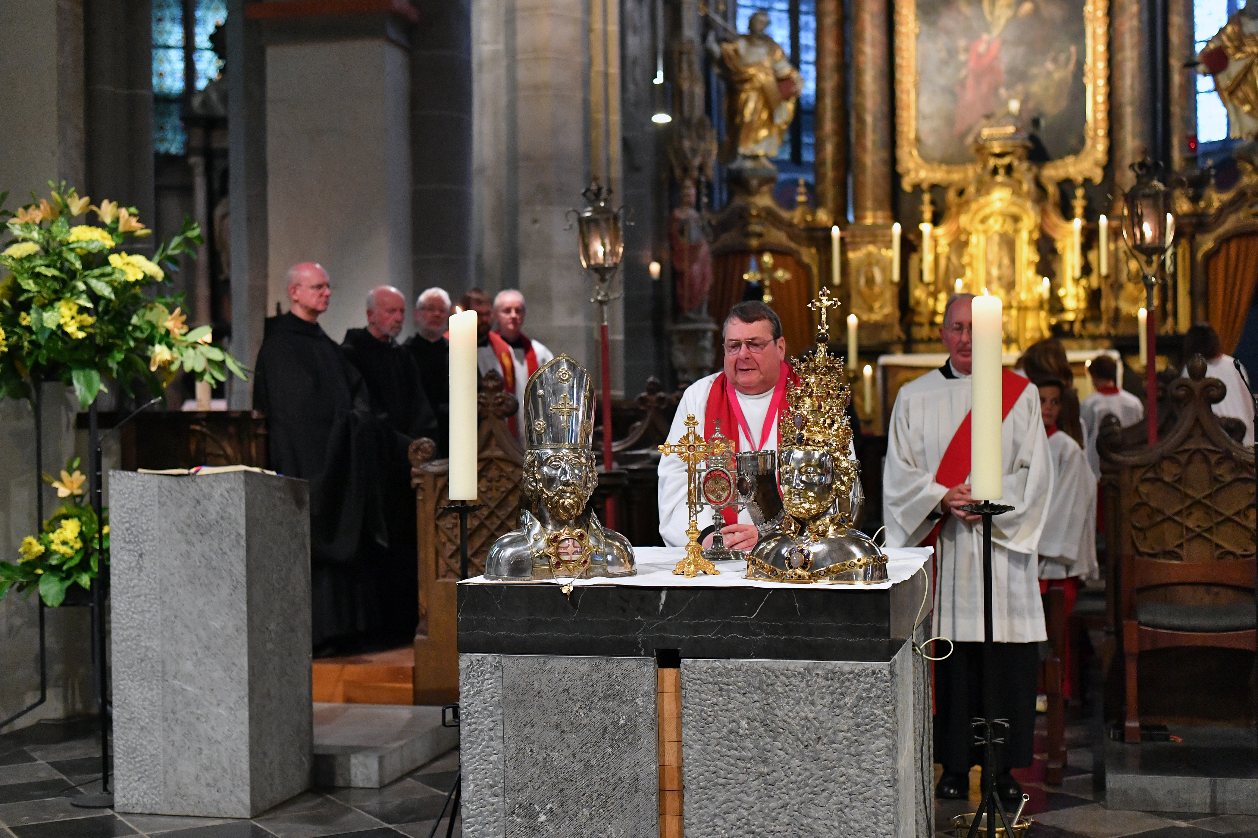 Kornelimünster Korneli-Oktav 2016 Schlussandacht und Reliquienprozession